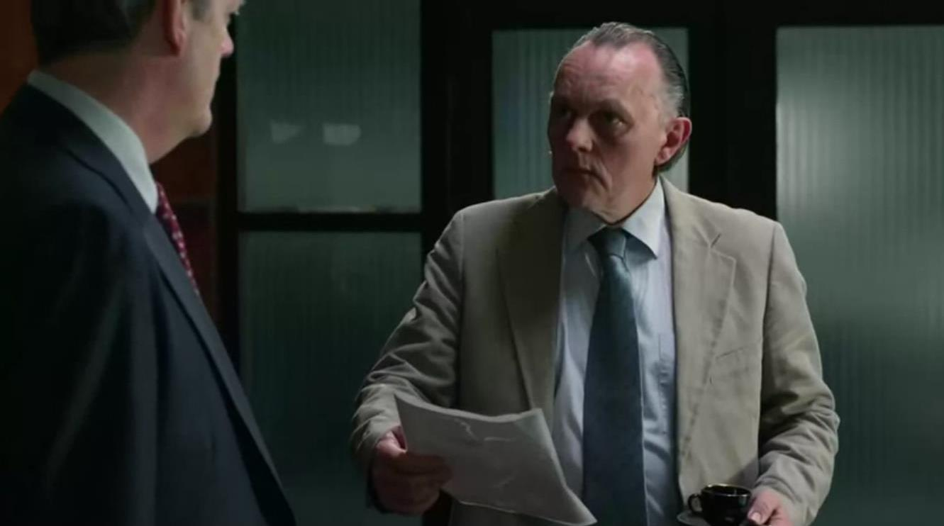 Dutch actor Bert Luppes in VARA TV series Overspel (2013)